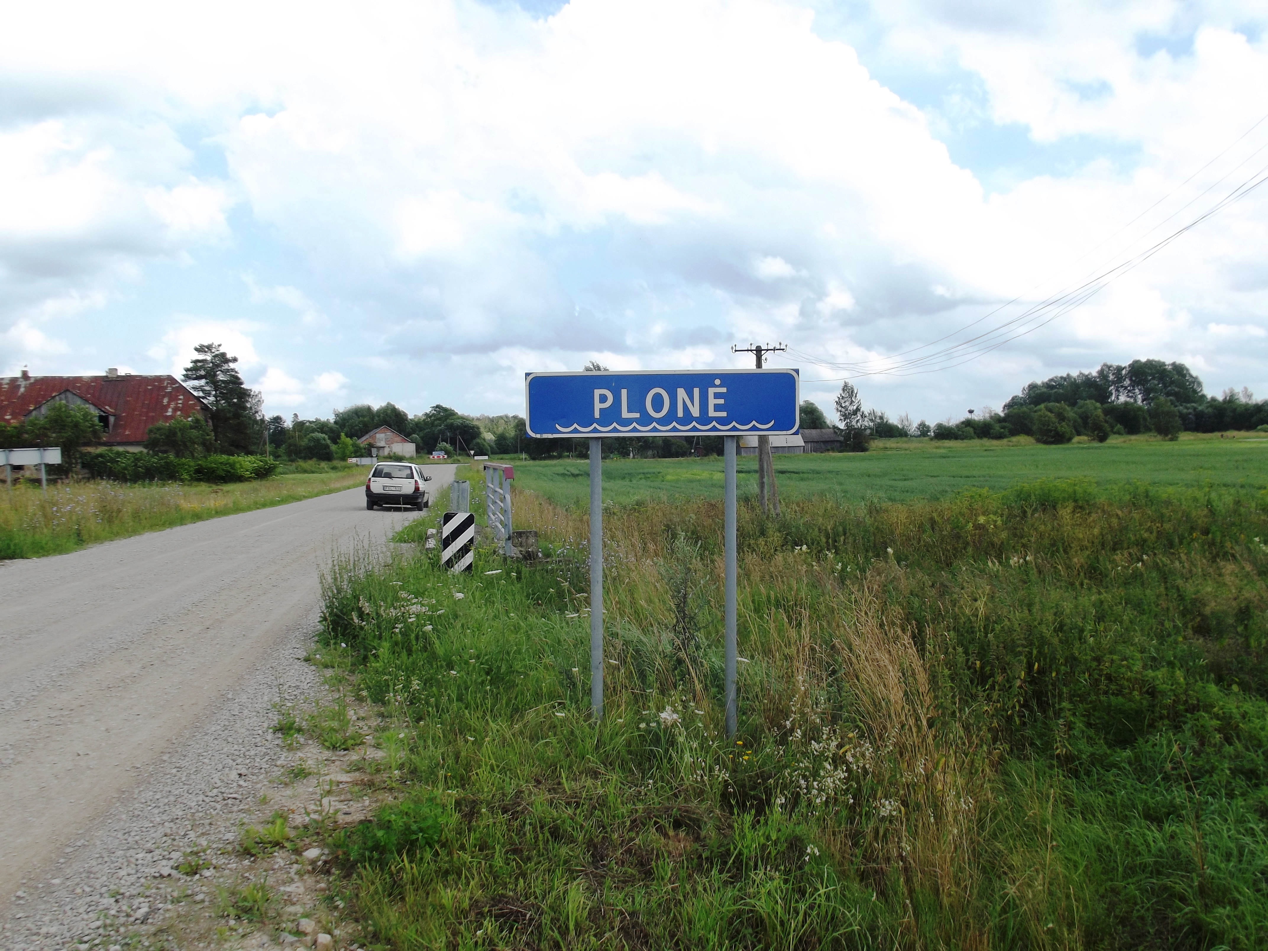 Plonė stream by Gedučiai, Pakruojis district, Lithuania